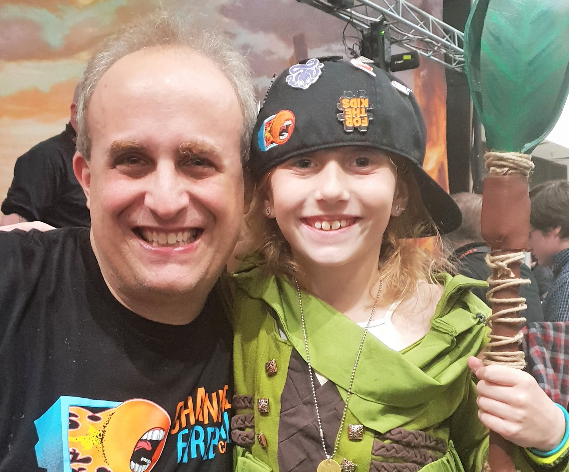 Competitive Magic: the Gathering players Adam and Dana Fischer at Grand Prix Los Angeles in 2019.